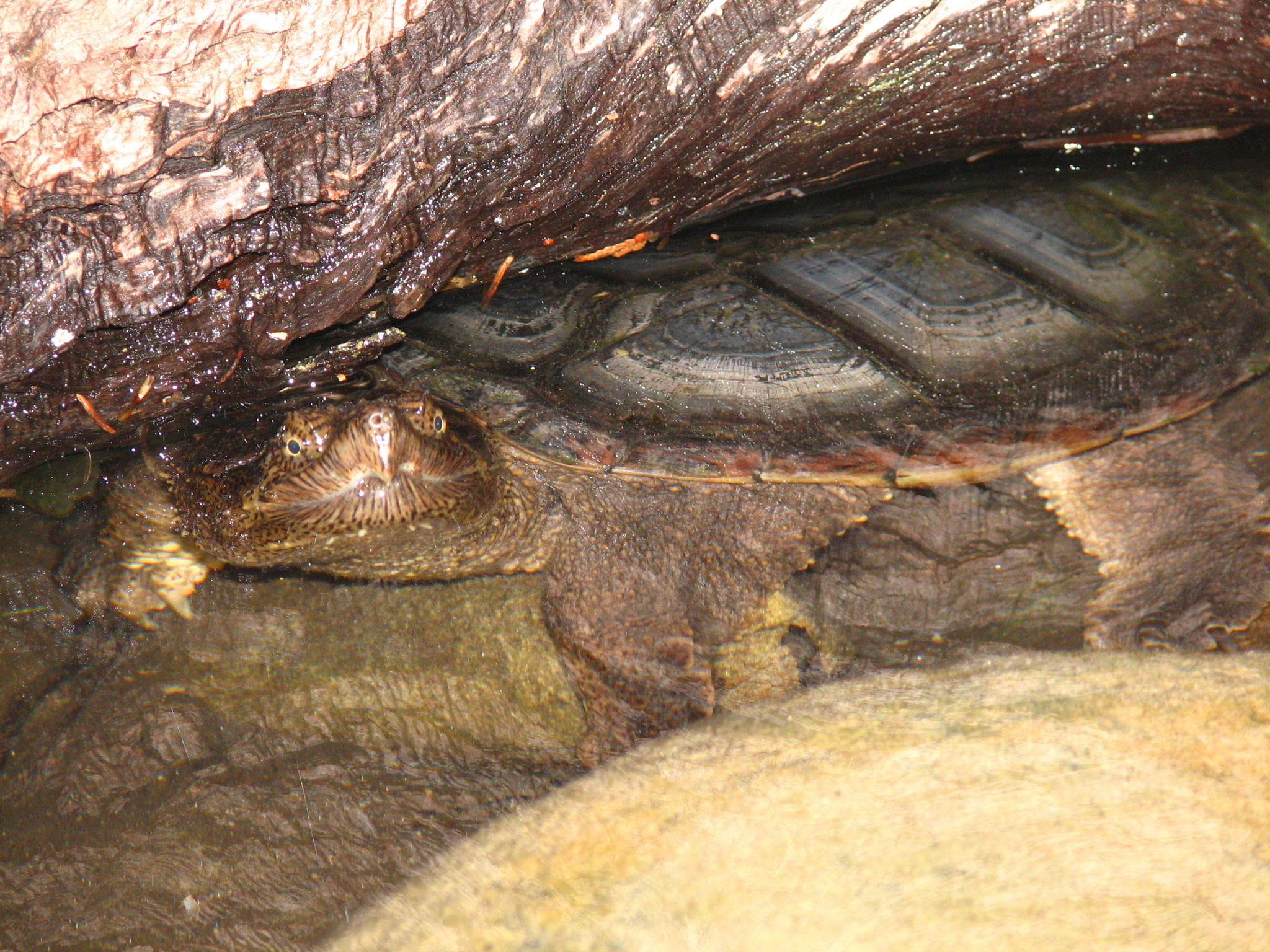 Common Snapping Turtle (Chelydra serpentina), Ladysmith, Quebec